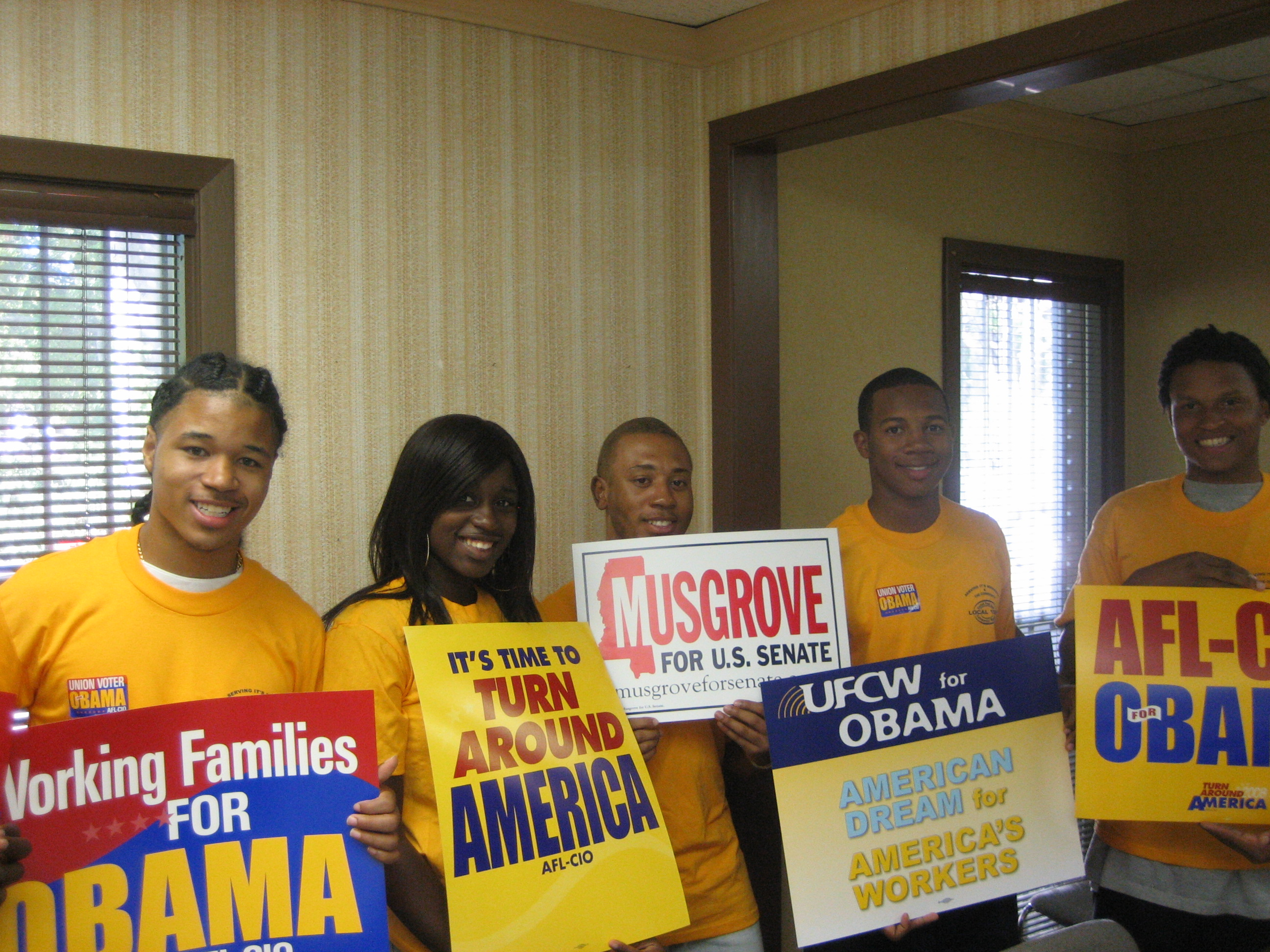 Volunteers from Working America get ready to knock on doors in support of Barack Obama and Ronnie Musgrove in Jackson, MS. credit: Len Shindel